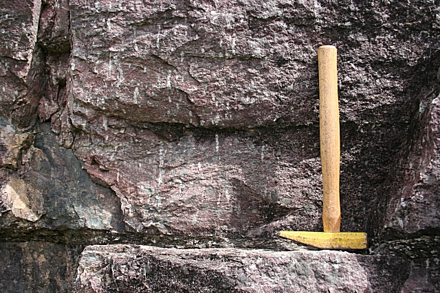 Pipe Rock In the upper formation of the Cambrian quartzite the rock is pinkish in colour and contains whitish vertical stripes described as pipes. These are interpreted as trace fossils left by worms which lived some 500 million years ago in vertical burrows in the sand which eventually lithified to form the quartzite. The geological name for these trace fossils is Skolithus.